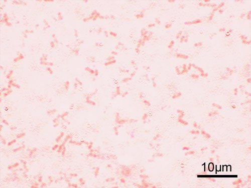 Microscopic image of Shigella flexneri. Gram staining, magnification: 1,000